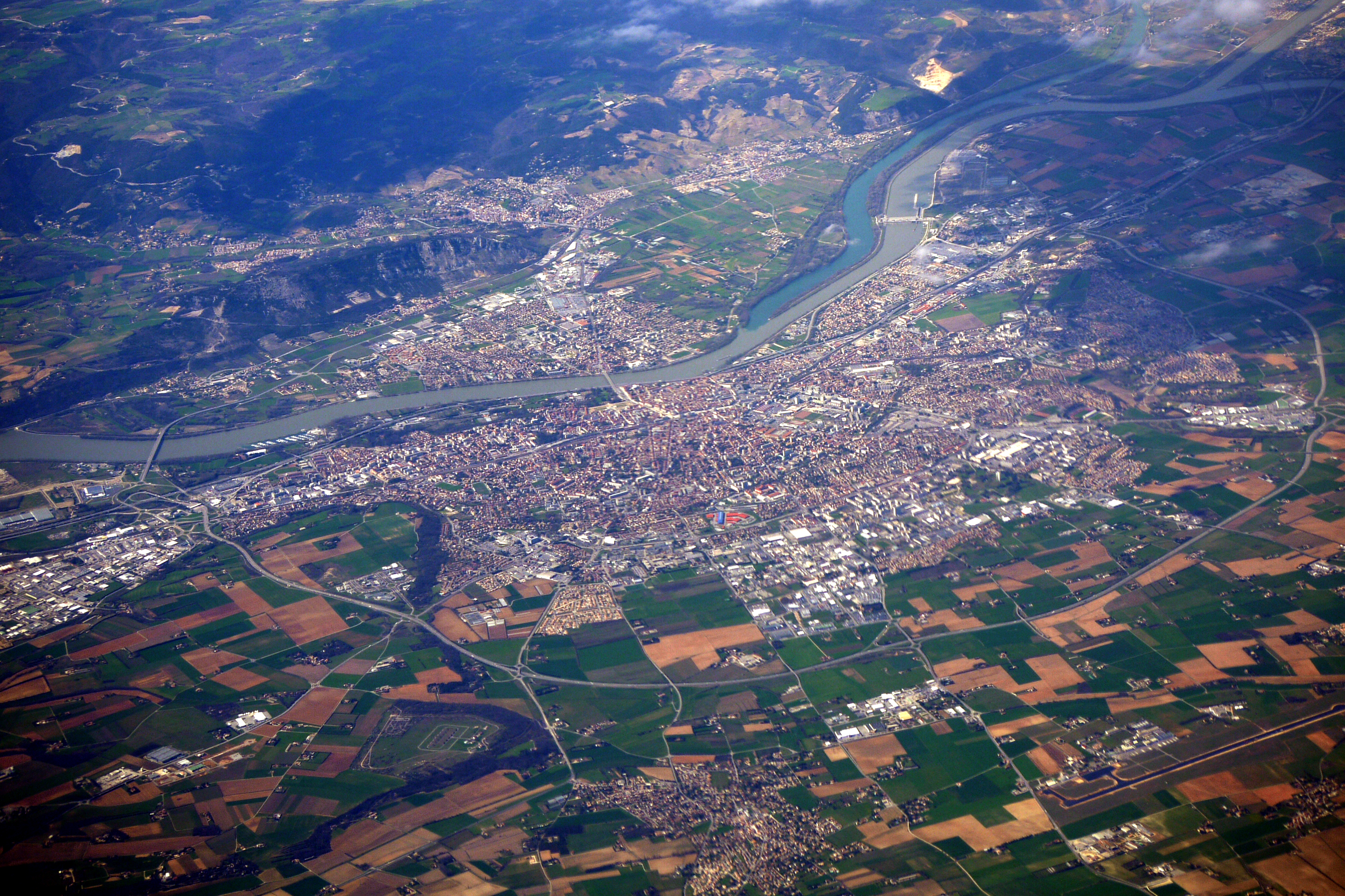 Valence, photograph taken from the sky, on the fly line between Marseille and Stockholm.